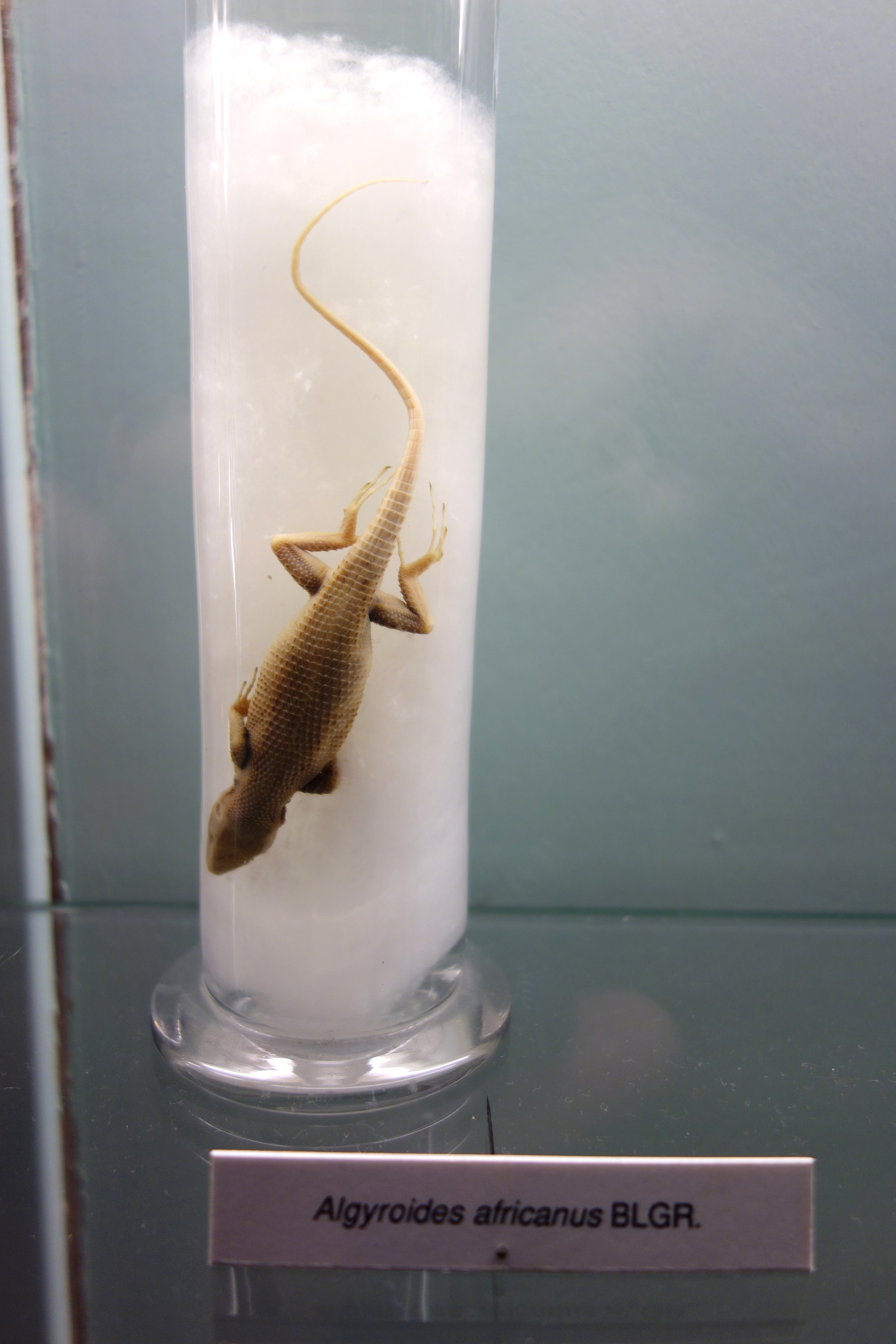 Exhibit in the Royal Museum for Central Africa, Tervuren, Belgium.